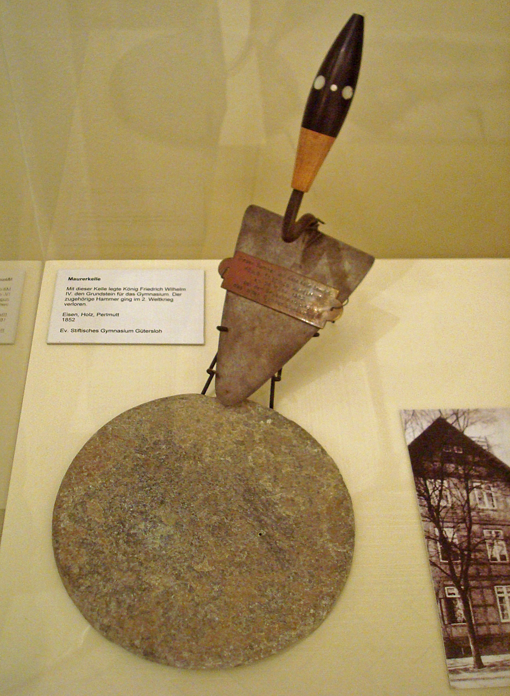 Brick trowel used by Frederick William IV of Prussia in 1852 at the cornerstone ceremony of a gymnasium in Gütersloh